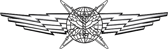 United States Air Force Cyberspace Operator badge. Made with Photoshop. The lightning bolt wings signify the cyberspace domain while the globe signifies the projection of cyber power world-wide. The globe, combined with lightning bolt wings, signifies the Air Force's common communications heritage. The bolted wings, centered on the globe, are a design element from the Air Force Seal signifying the striking power through air, space and cyberspace. The orbits signify the space dimension of the cyberspace domain. [1]